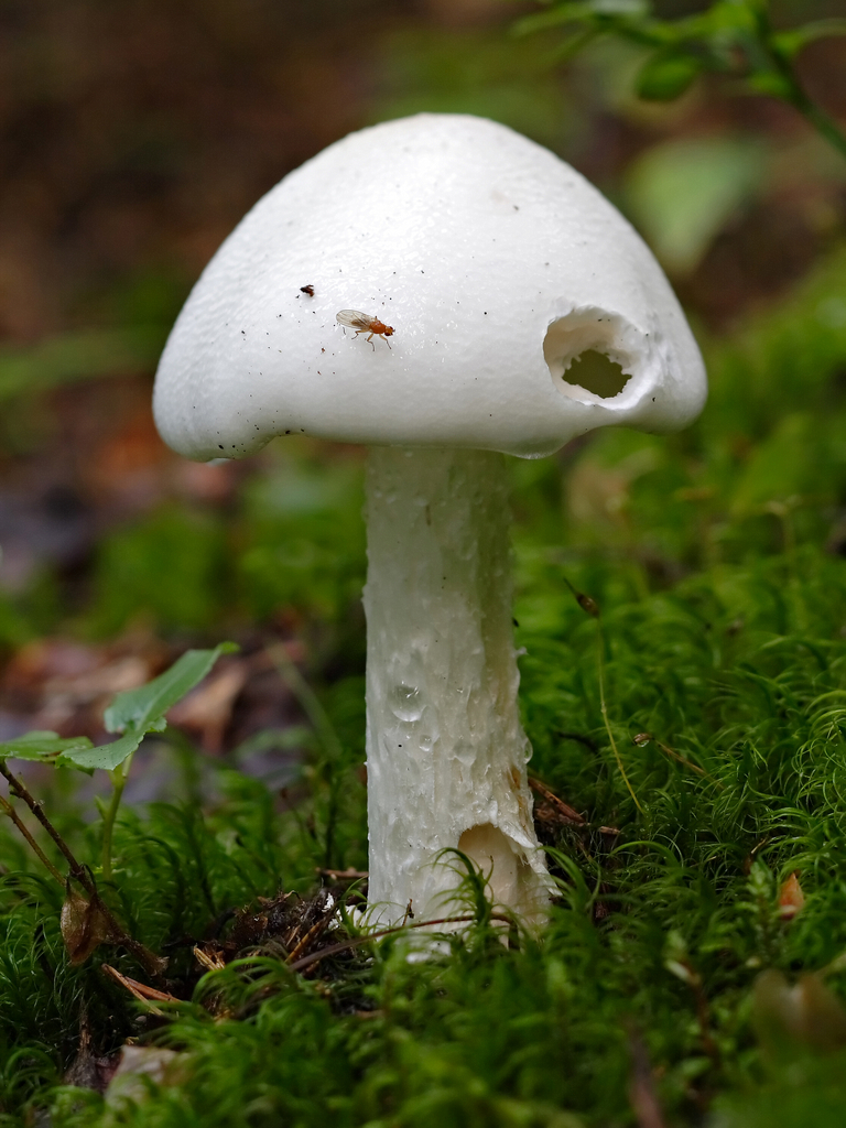 European Destroying Angel (Amanita virosa) While some animals can eat this toadstool without harm, to humans it is one of the most toxic of all known fungi. No antidote is known and poisonings are often fatal. Never eat white fungi with white gills (lamellae). Dysmorodrepanis 12:34, 28 May 2008 (UTC)